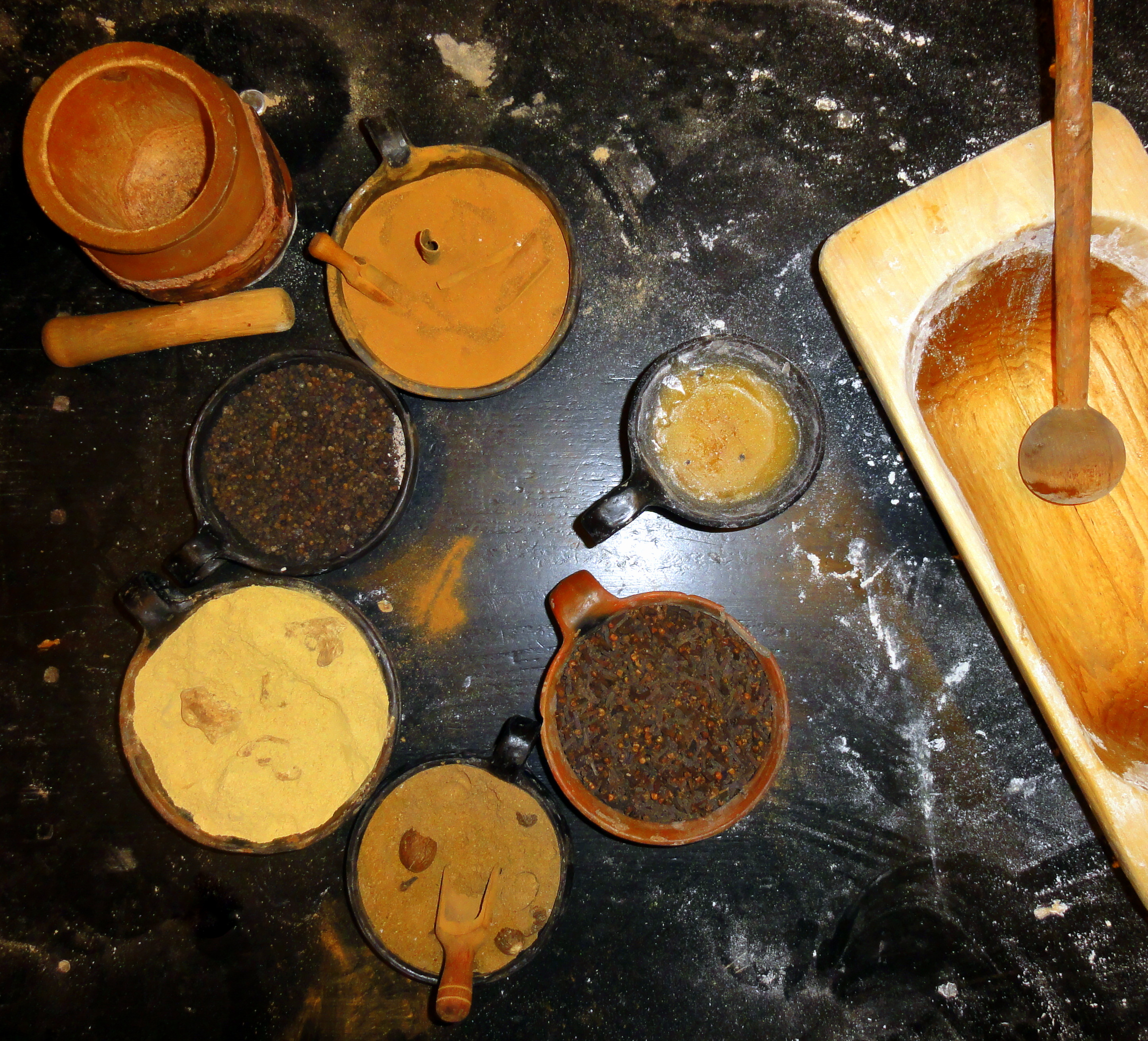 Seasonings traditionally used in the manufacture of Toruń gingerbread (clockwise from top): cinnamon, honey, cloves, nutmeg, ginger and black pepper.The Living Museum of Gingerbread, Toruń, Poland